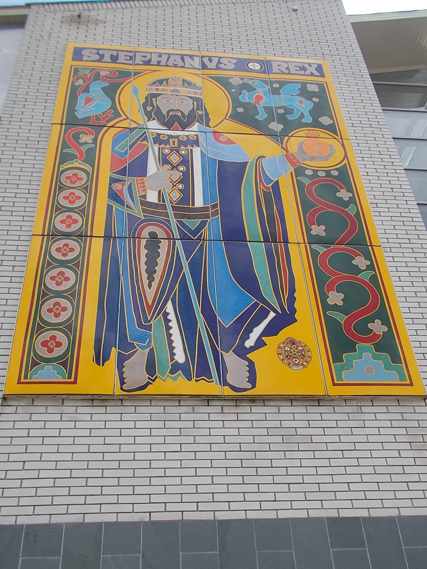 Stephen I of Hungary on the facade of Town Hall in Hévíz, Zala County, Hungary.